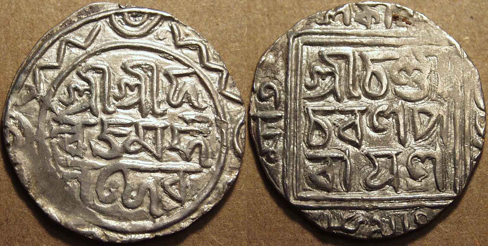 Silver tanka of the Bengal Sultanate period (possibly from a vassal state such as Chandradwip or the reign of the usurper Ganesha)